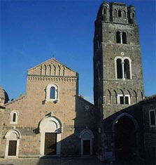 Casertavecchia duomo